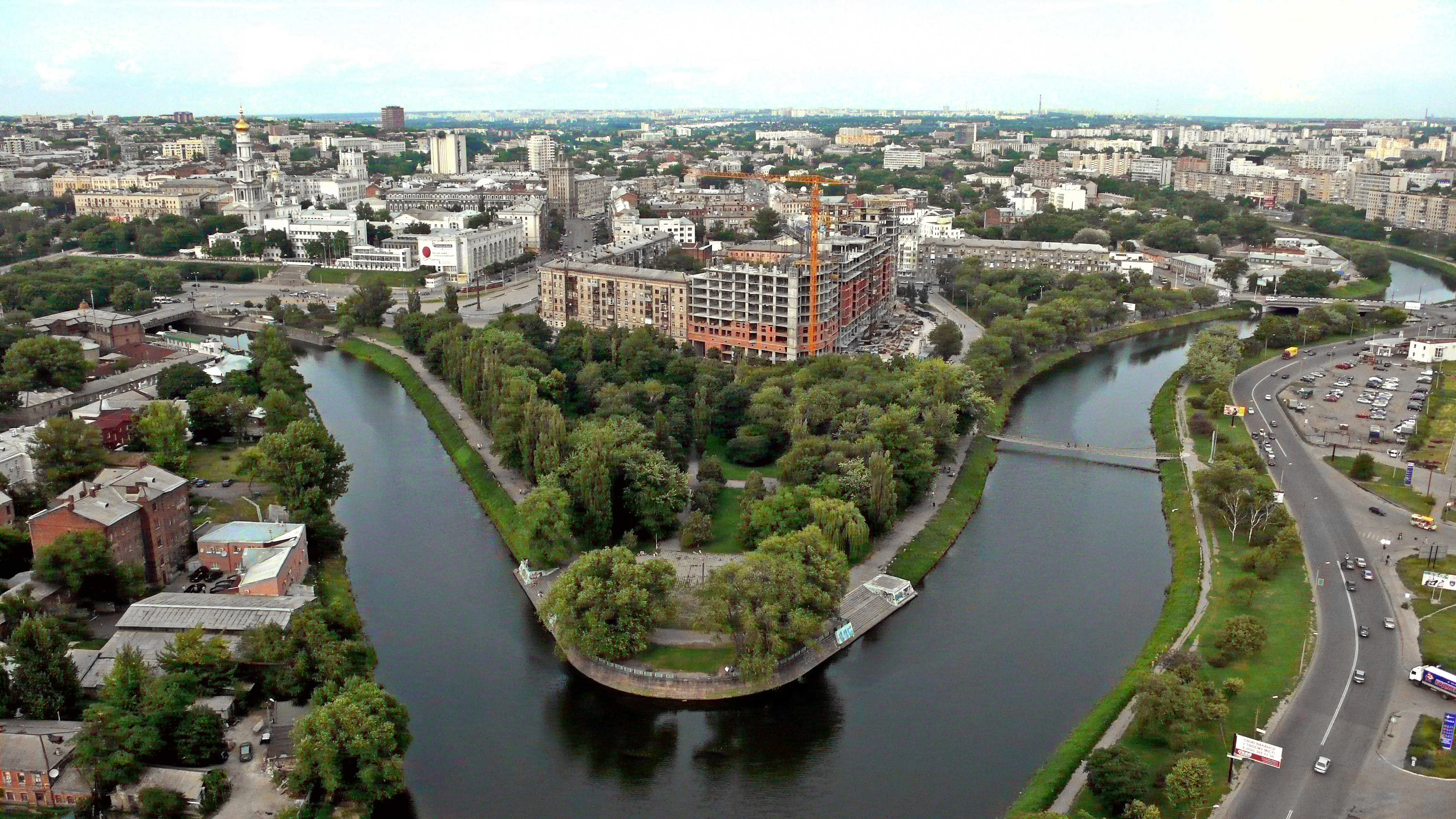 Lopan and Kharkov rivers strelka in Kharkov City. 2008